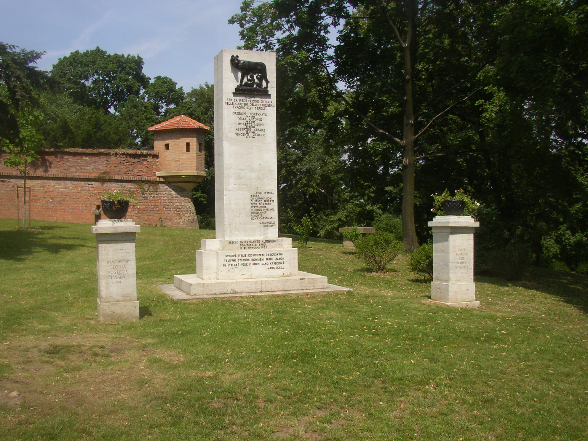 Memorial to Italian Carbonari imprisoned at Špilberk Castle in Brno, Czech Republic, who died and were buried here.